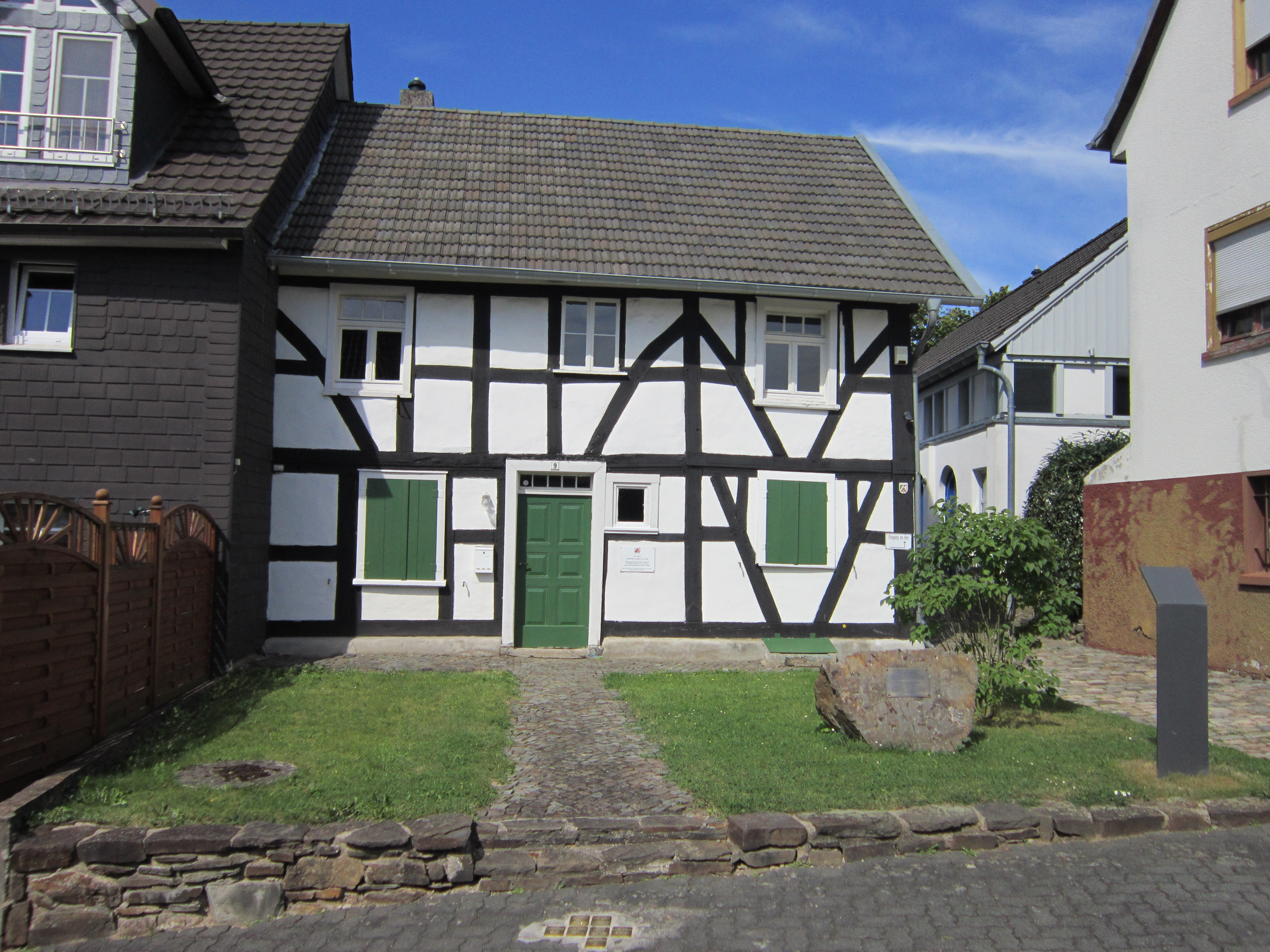 Inscription: Memorial stone in front of museum: The family of Max and Mary Seligmann lived here beginning in 1920. From 1933 - 1945 they were discriminated against and persecuted by the Nazis as Jews; four of their children were murdered. Since 1994, this site has served the Rhein-Sieg District as the memorial "Country Jews on the Sieg River". The museum keeps alive the memory of the Jewish families who once lived here, and of their culture. Address: Bergstraße 9, Rosbach (Windeck)